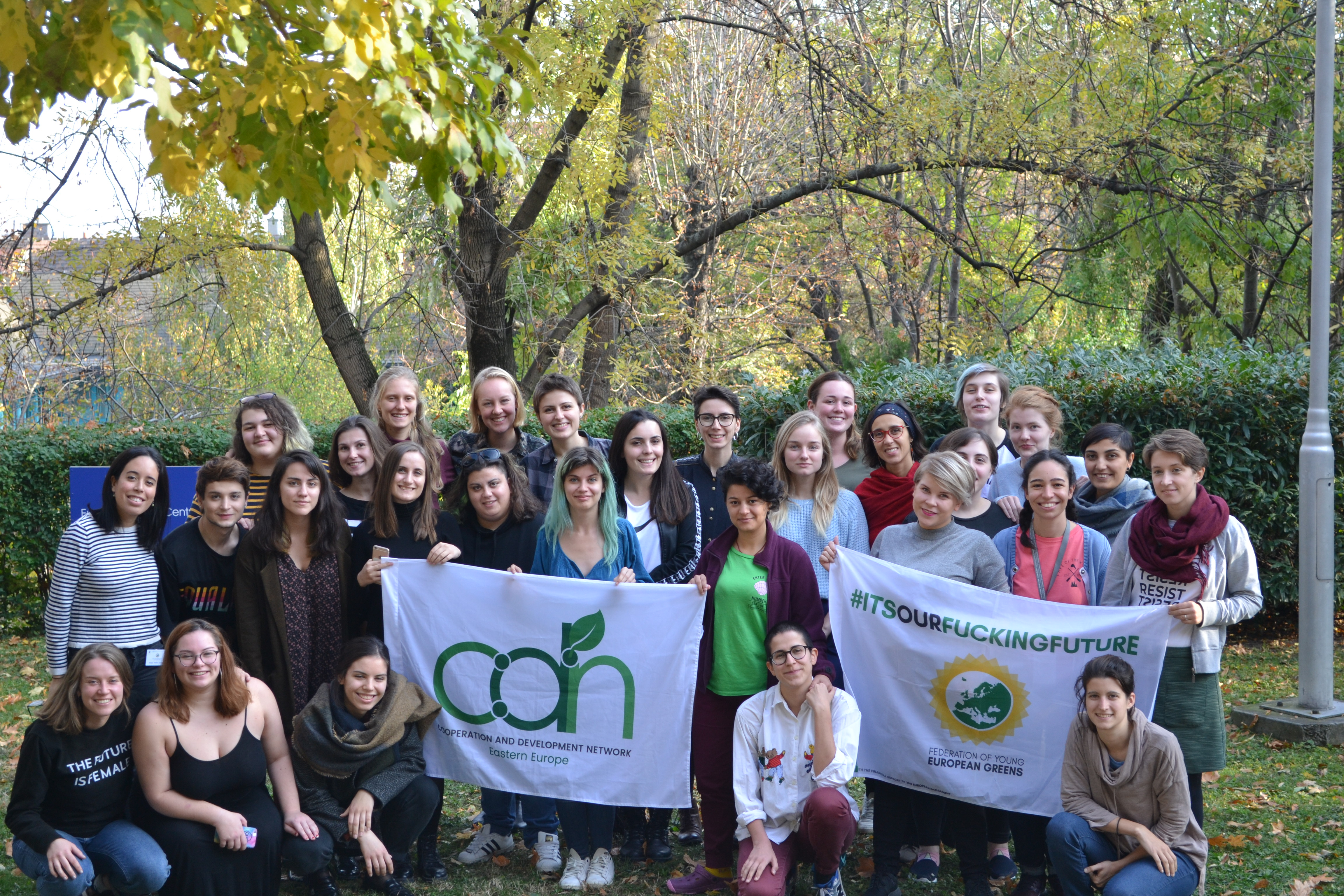 Photo from the study session "The Glass Ceiling Is Not Your Limit" in Budapest.